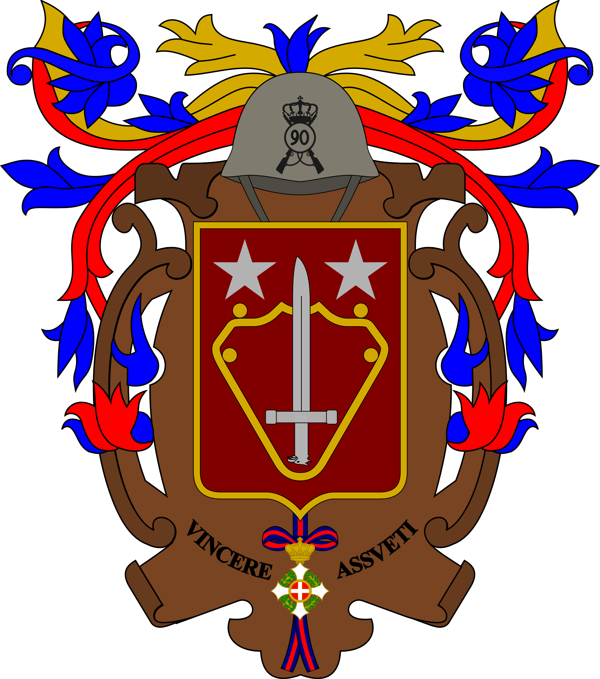 Coat of Arms of the 90th Infantry Regiment "Salerno", Royal Italian Army, 1939